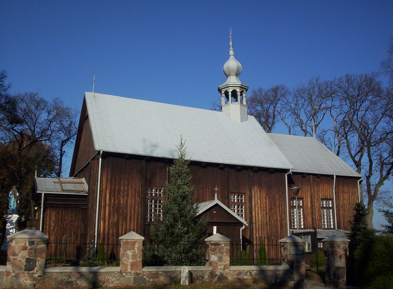 Church in Stara Rawa, eastern part of Łódź Voivodeship, Poland.